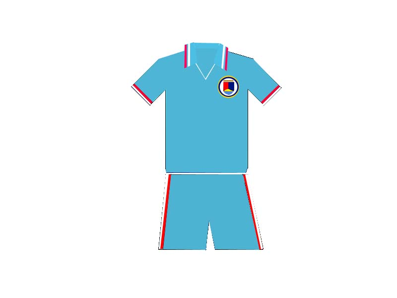 MBC